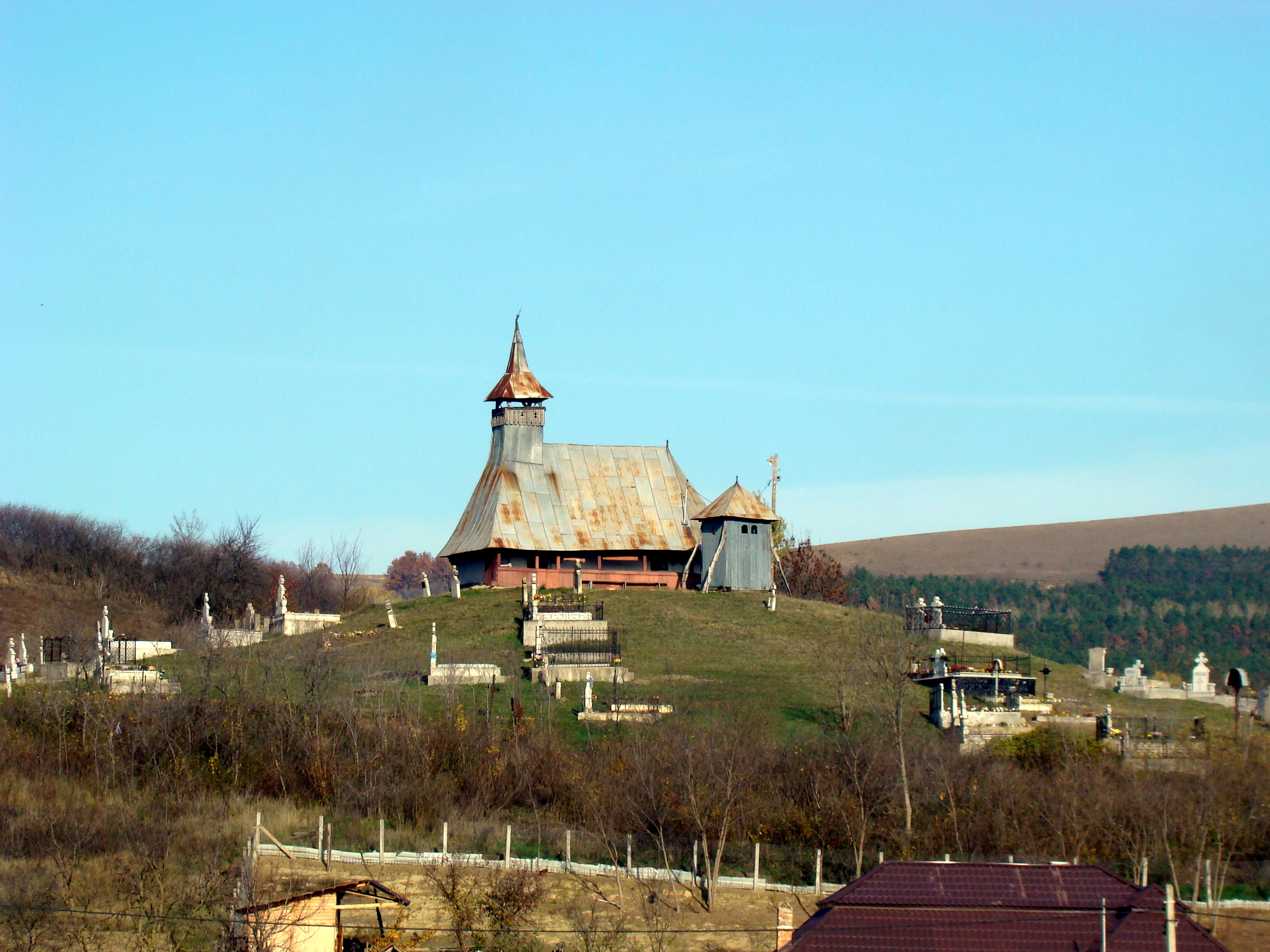 Wooden church in Crișeni, Ckuj county, Romania